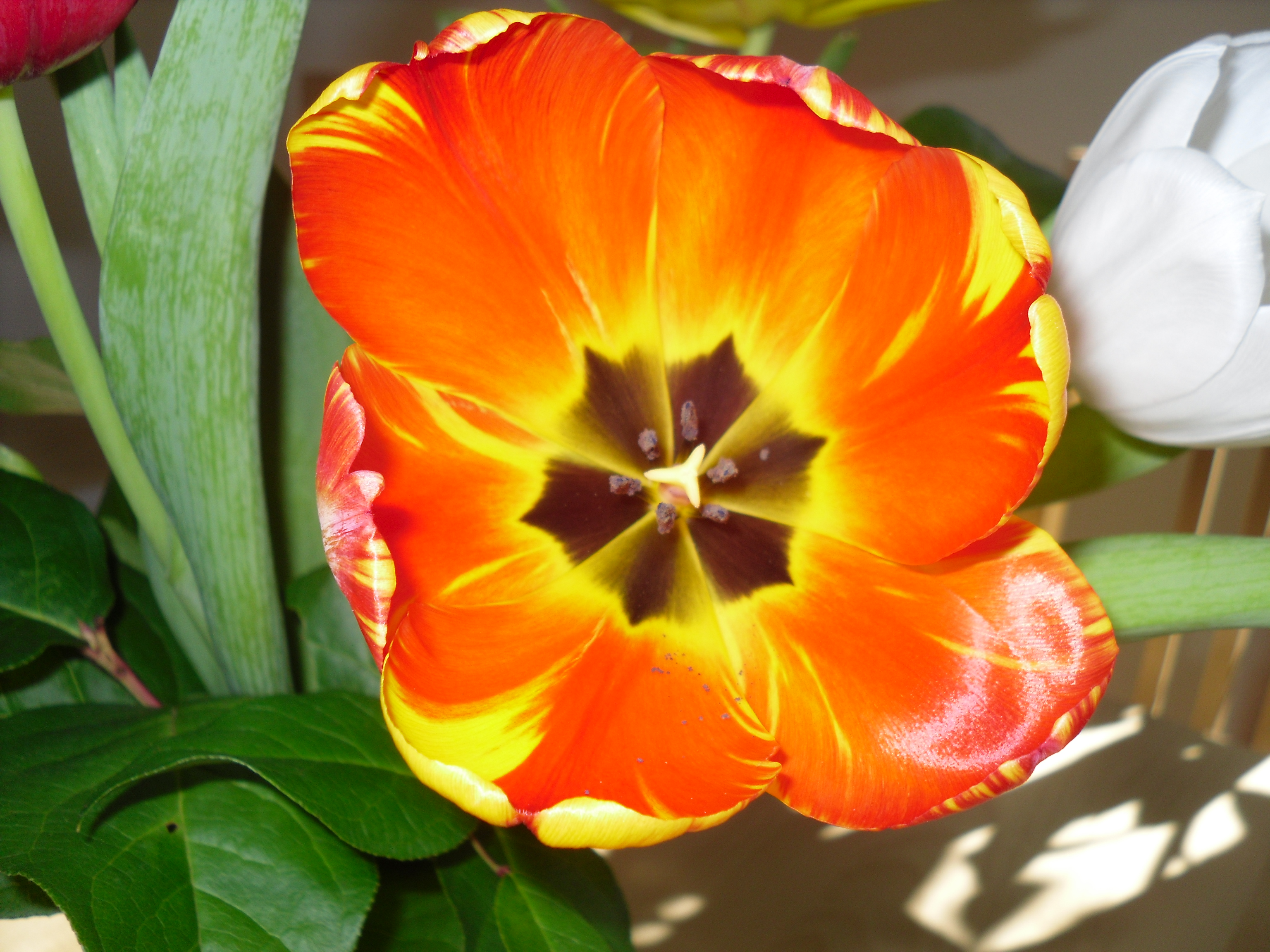 Unidentified Tulipa